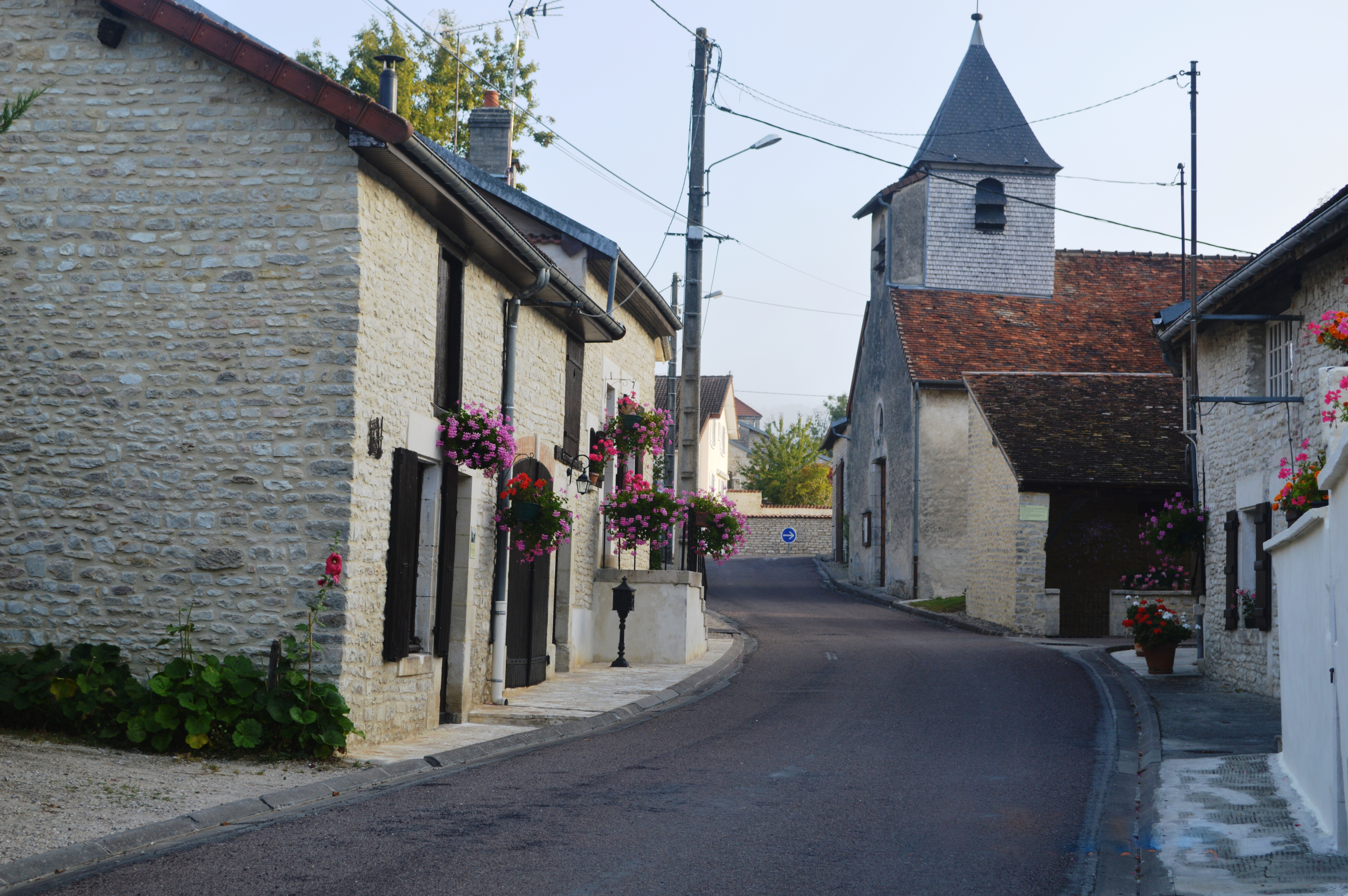 A street in Ailleville